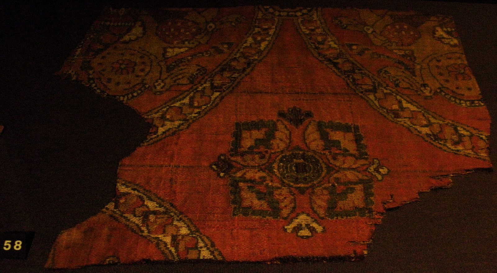 Woven piece of silk (23.3 x 28.5cm). Byzantine or Spanish, 9th/10th c. Treasury of the Basilica of Saint Servatius, Maastricht